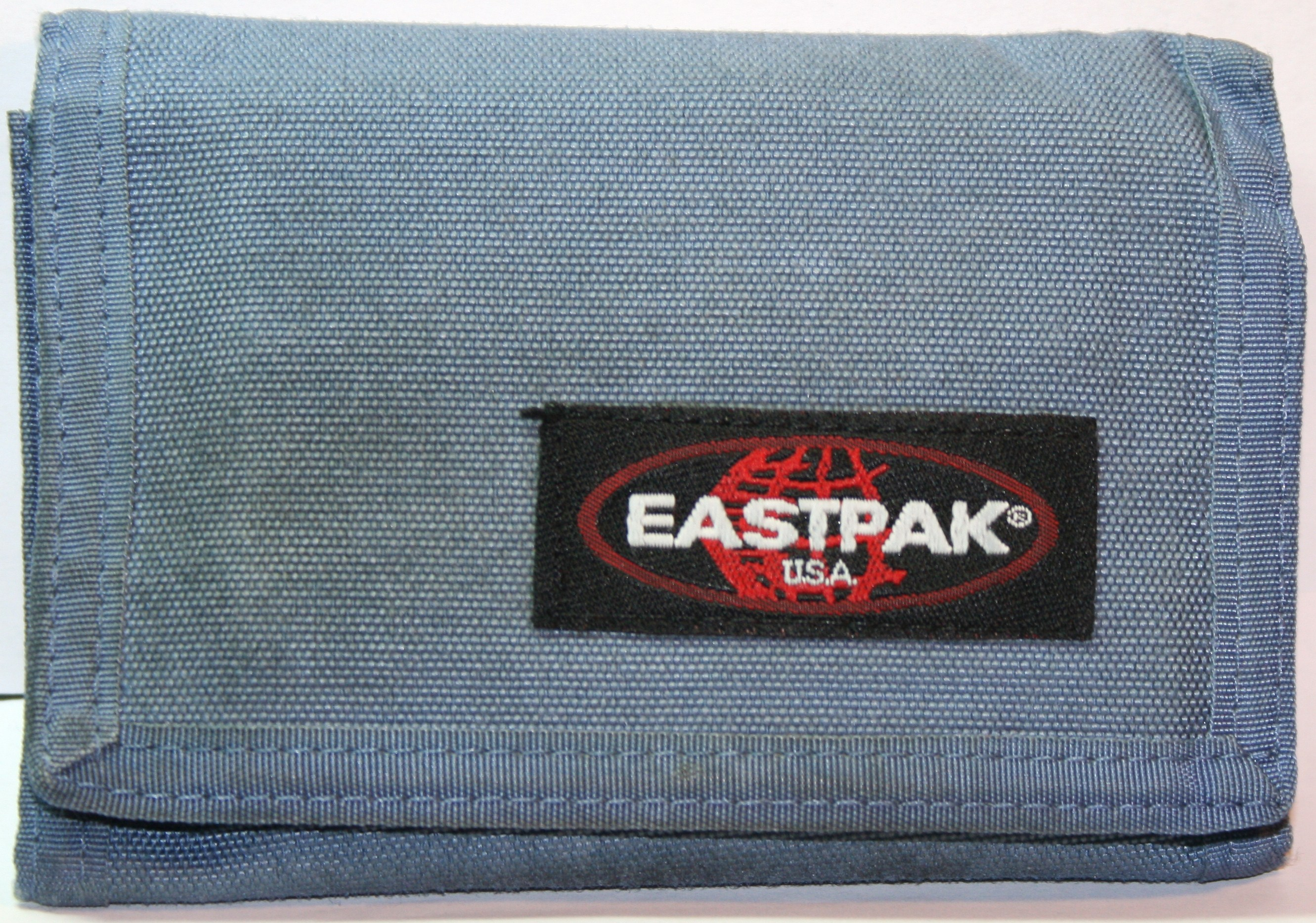 Eastpak-wallet.